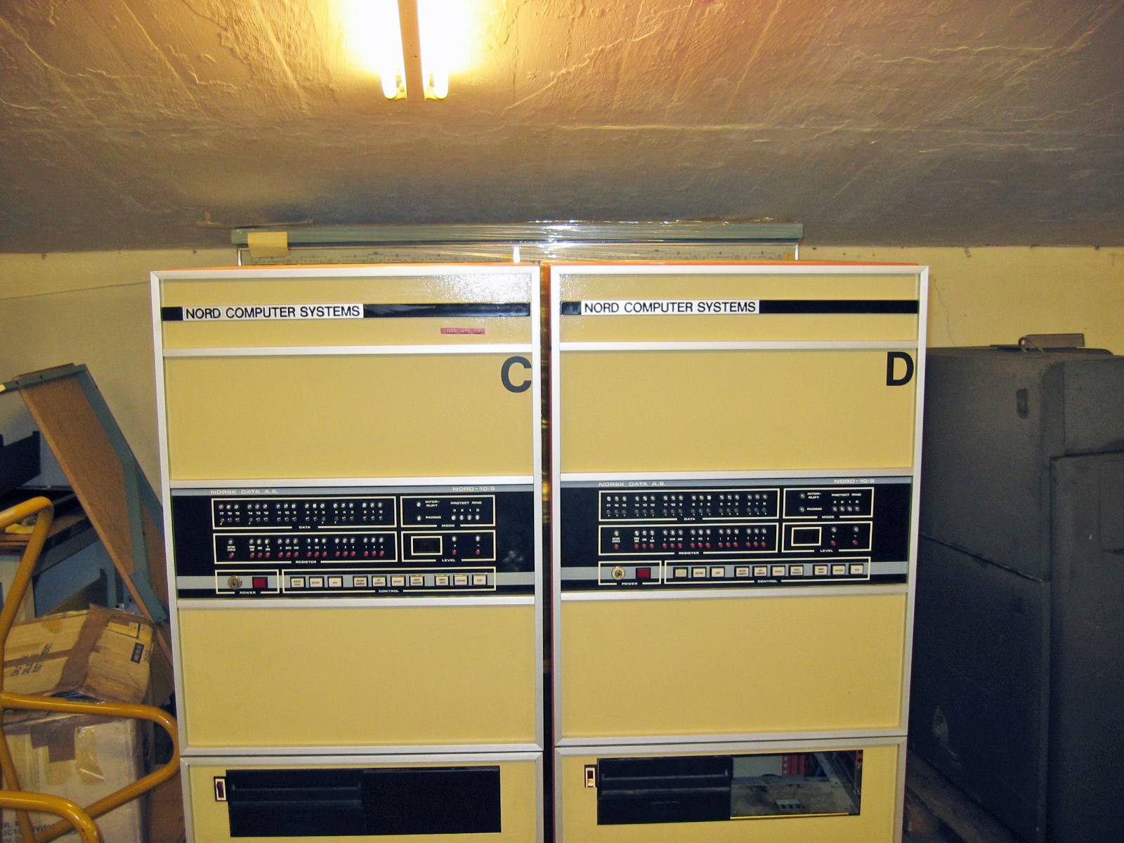 Two adjacent NORD-10/S computers in the collection of NTNU.